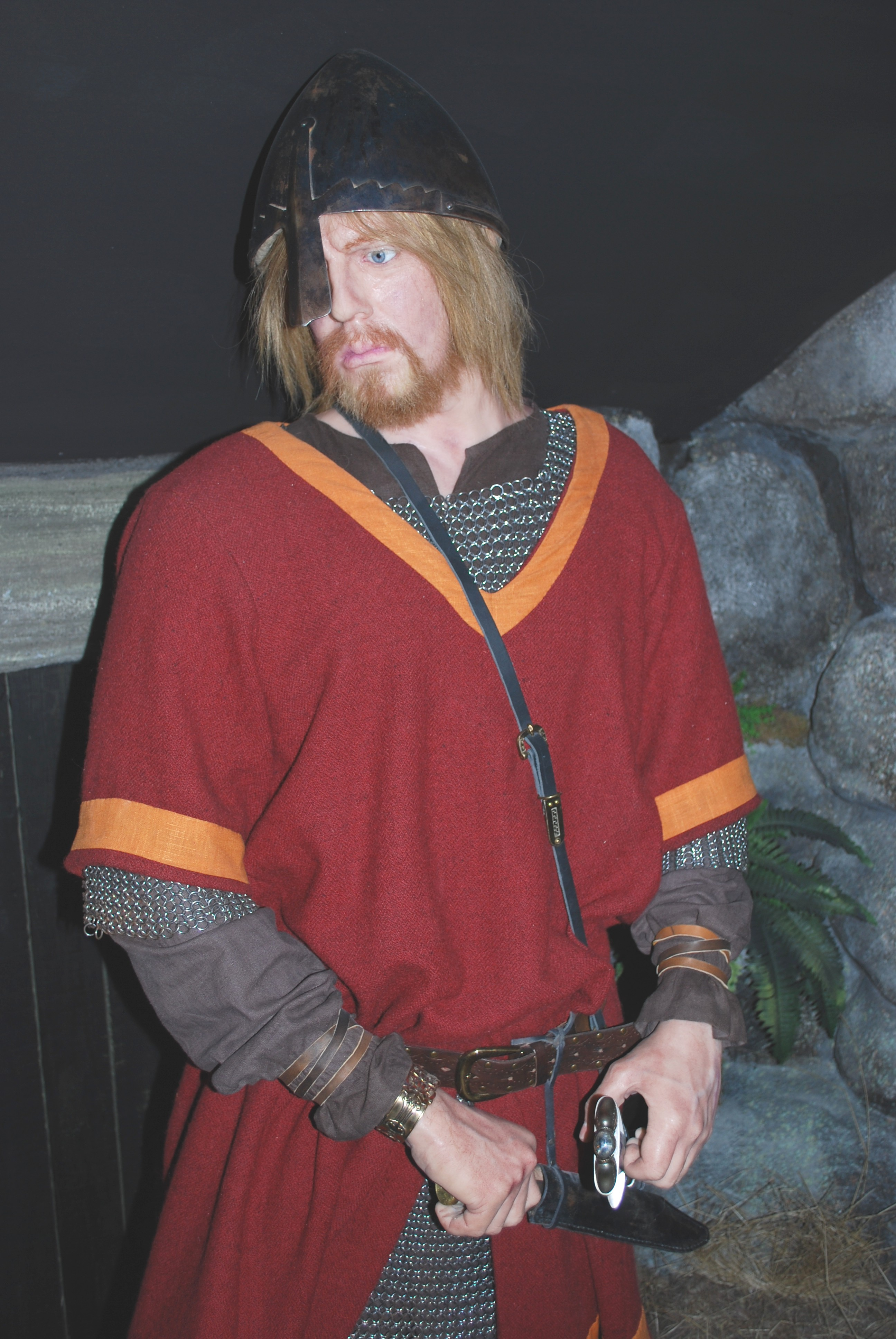 Wiking in the wax museum, SagaMuseum, Vestmanna, Faroe Islands